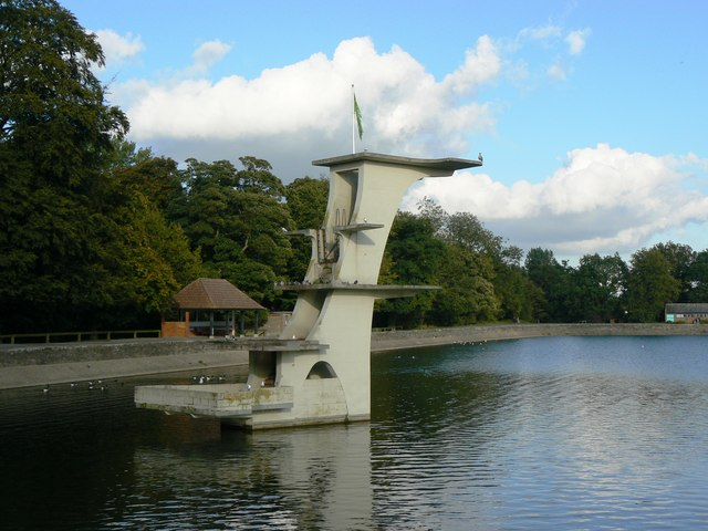 Art deco diving board, Coate Water, Swindon, Wiltshire Another view of this local landmark. Rather a shame the lines have been spoiled by the concrete block infills but the pigeons don't seem bothered.